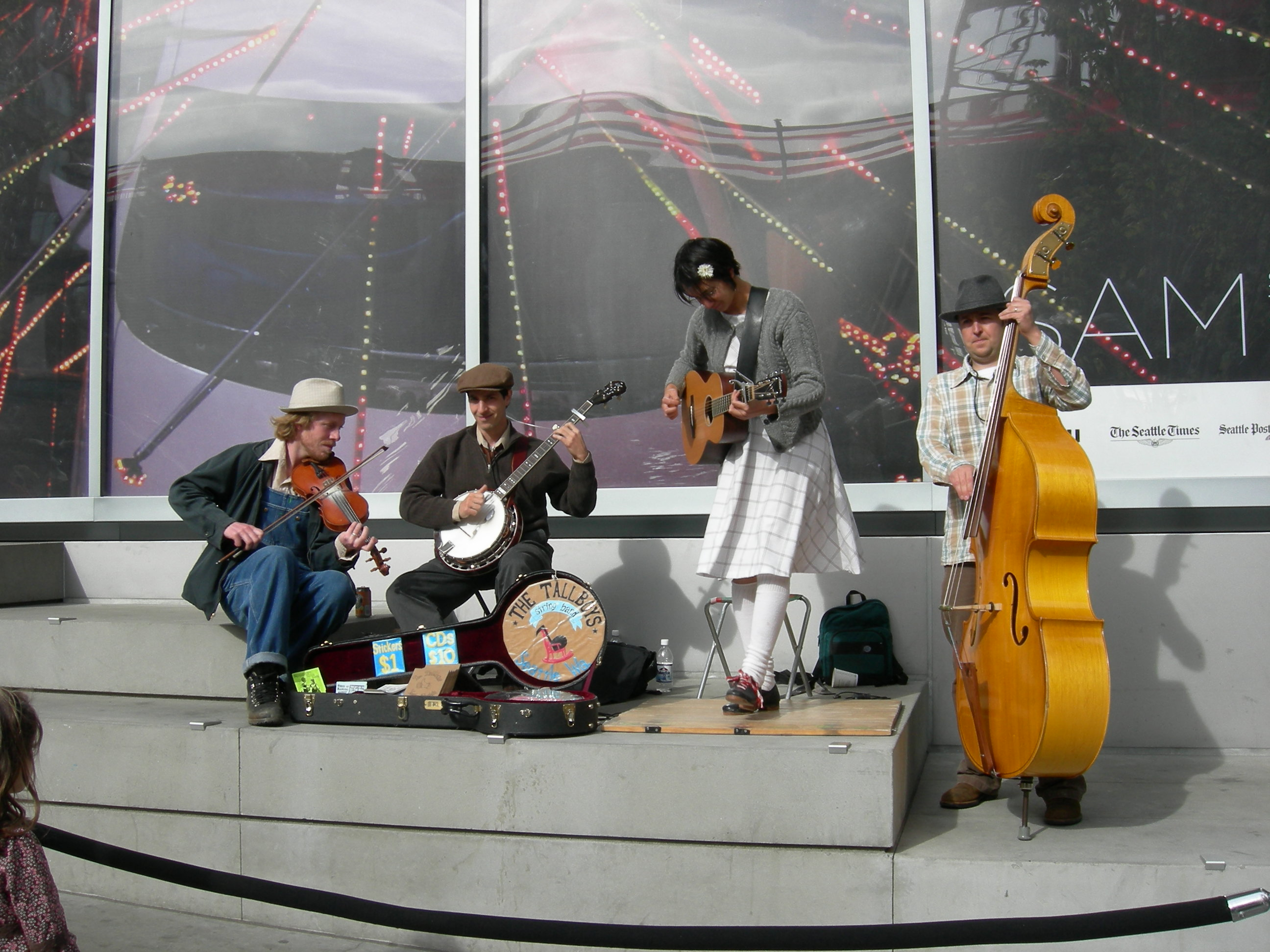 The Tallboys, old-timey band including a shingle dancer, perform outside the Seattle Art Museum, Seattle, Washington, as part of its re-opening.